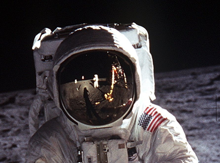 Short description: Head of astronaut Buzz Aldrin on the moon Full description: Astronaut Buzz Aldrin, lunar module pilot, walks on the surface of the Moon near the leg of the Lunar Module (LM) "Eagle" during the Apollo 11 extravehicular activity (EVA). Astronaut Neil A. Armstrong, commander, took this photograph with a 70mm lunar surface camera. While astronauts Armstrong and Aldrin descended in the Lunar Module (LM) "Eagle" to explore the Sea of Tranquility region of the Moon, astronaut Michael Collins, command module pilot, remained with the Command and Service Modules (CSM) "Columbia" in lunar orbit. Variations: The upper black band is an addition to the original photo, carried out for "reasons of balance". Seeing original photo and explanation of the trucaje in the Link. In the version expanded of the photography is possible to see a horizontal white line in the left upper part (right of the person that contemplates the photography) of the helmet. Is the base of the antenna, that was cut in the original setting of the photography.